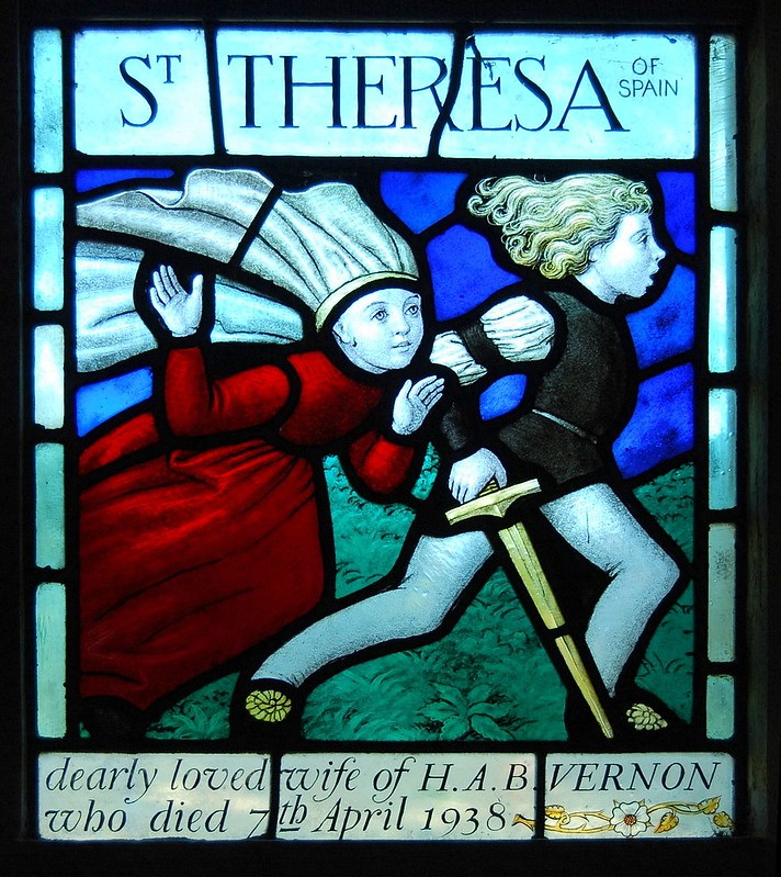 early 20th century Stained Glass panel in West Quantoxhead Church